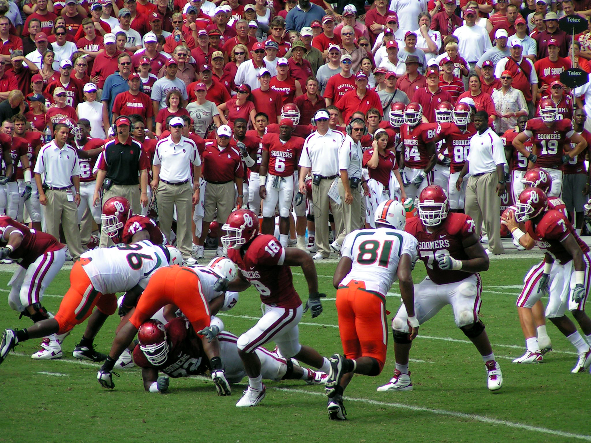 The offense of the Oklahoma Sooners block the Miami Hurricane defense to allow time for quarterback Sam Bradford to complete his pass.